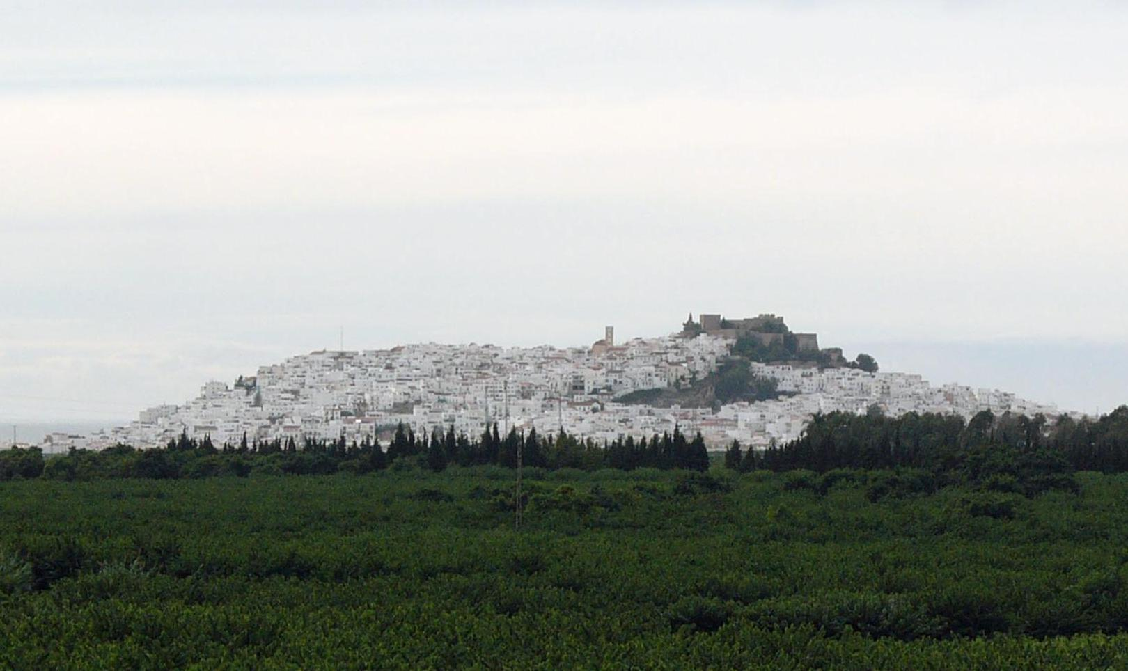 Salobreña, in Granada (Spain)